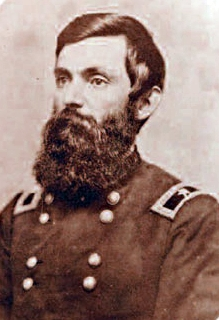 Civil War era image of Brigadier General Joseph Bailey (1825–1867); a civil engineer, Bailey served as an officer in the Union Army during the American Civil War.